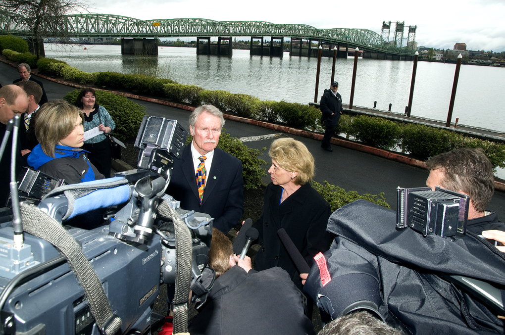 At an April 25, 2011, news conference, Washington Governor Chris Gregoire and Oregon Governor John Kitzhaber announced their plan to take advantage of federal funding opportunities and break ground on the Columbia River Crossing project in 2013.